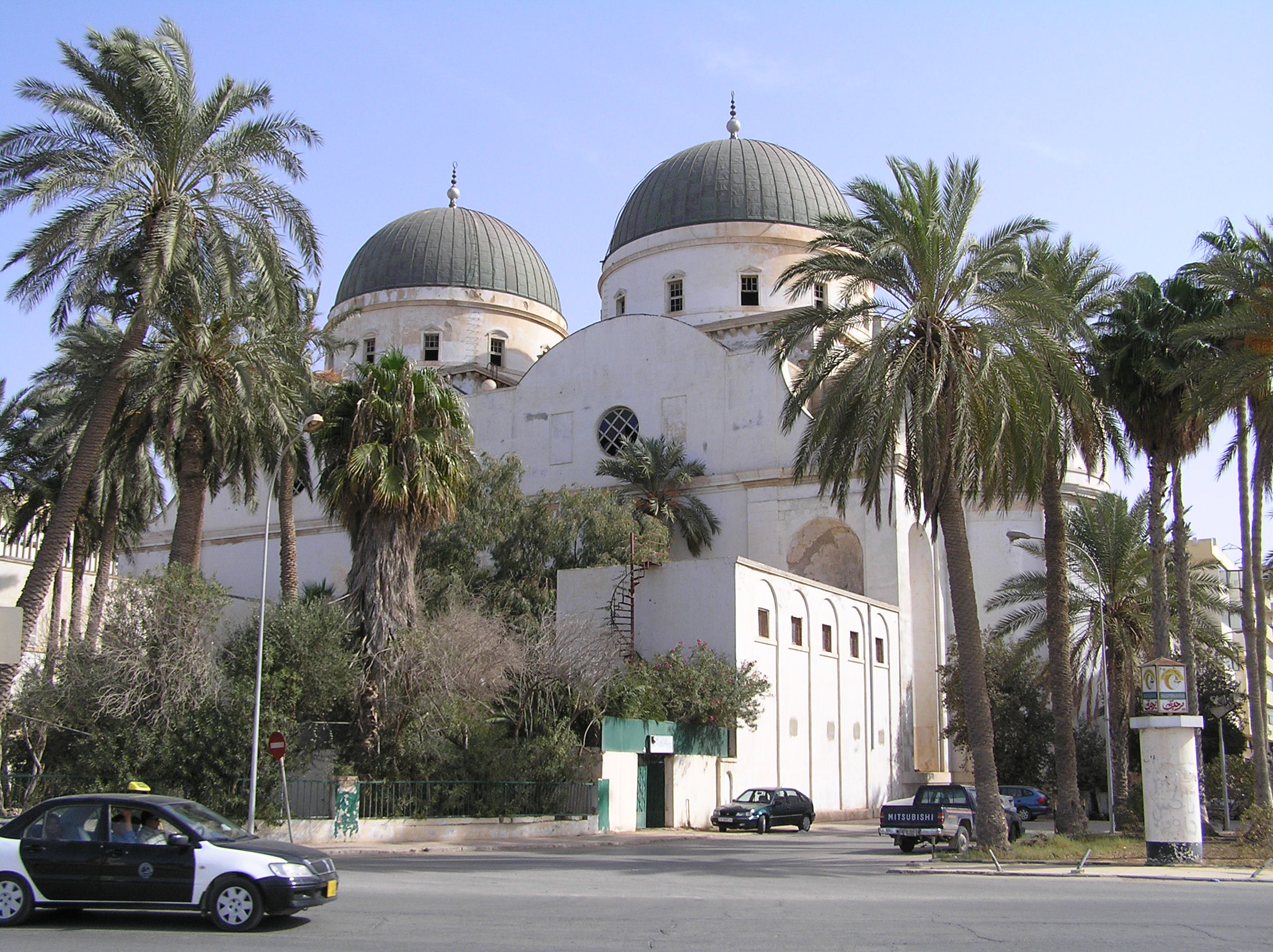 The former Italian cathedral in Benghazi, Libya.